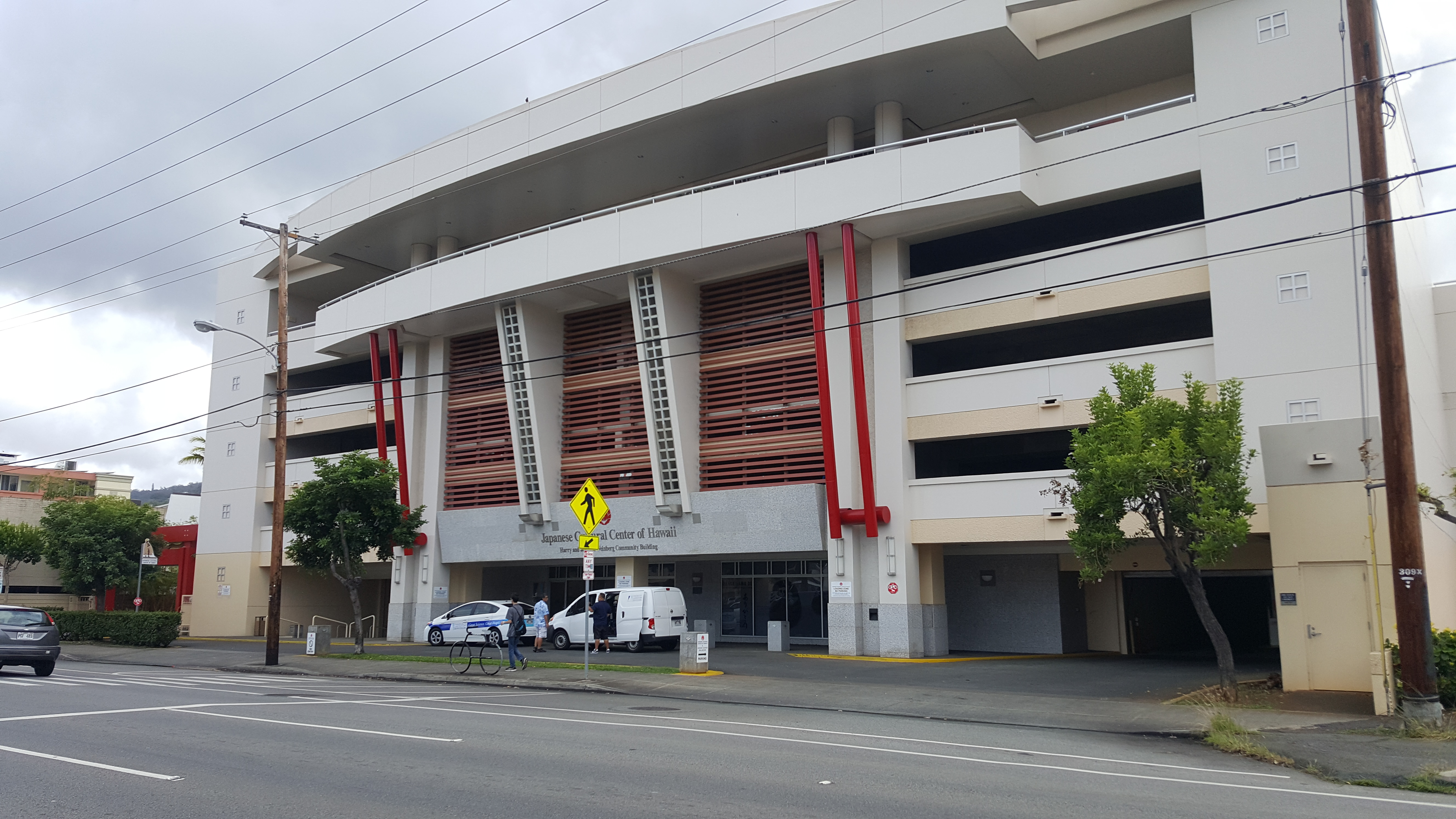 Phase 2 (parking lot, museum, dojo, etc) viewed from South Beretania st.